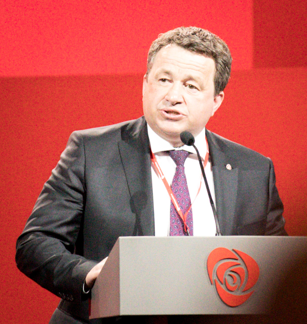 Kjell-Idar Juvik during the debate at Norway Labour party's bi-yearly congress in 2017(Arbeiderpartiets landsmøte).